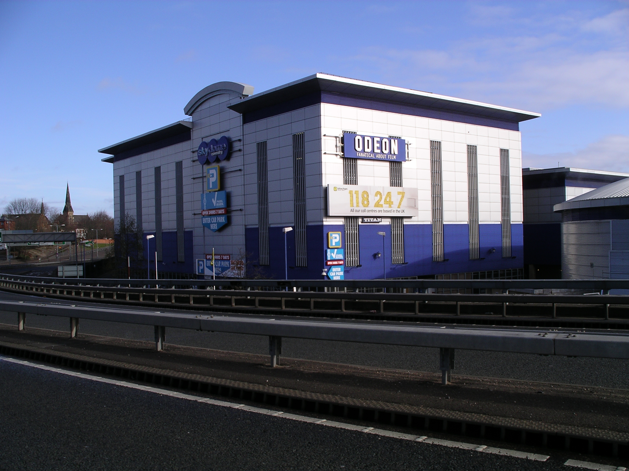 The car park block for the SkyDome Arena, Coventry, England.